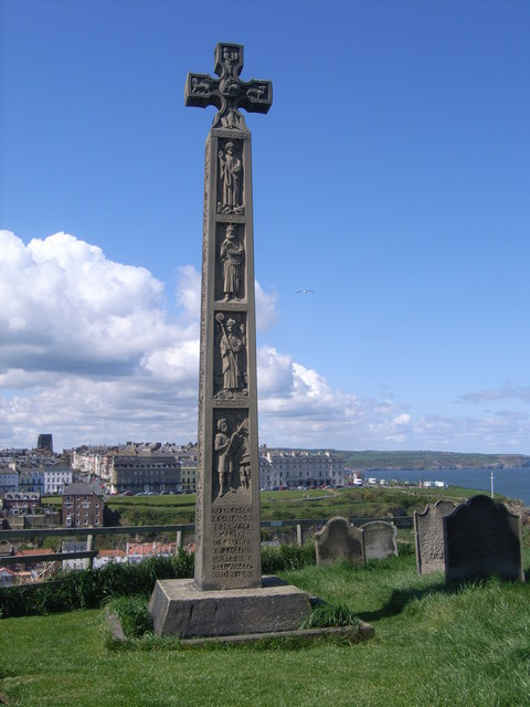 Memorial to Cadmon, the Father of English sacred song